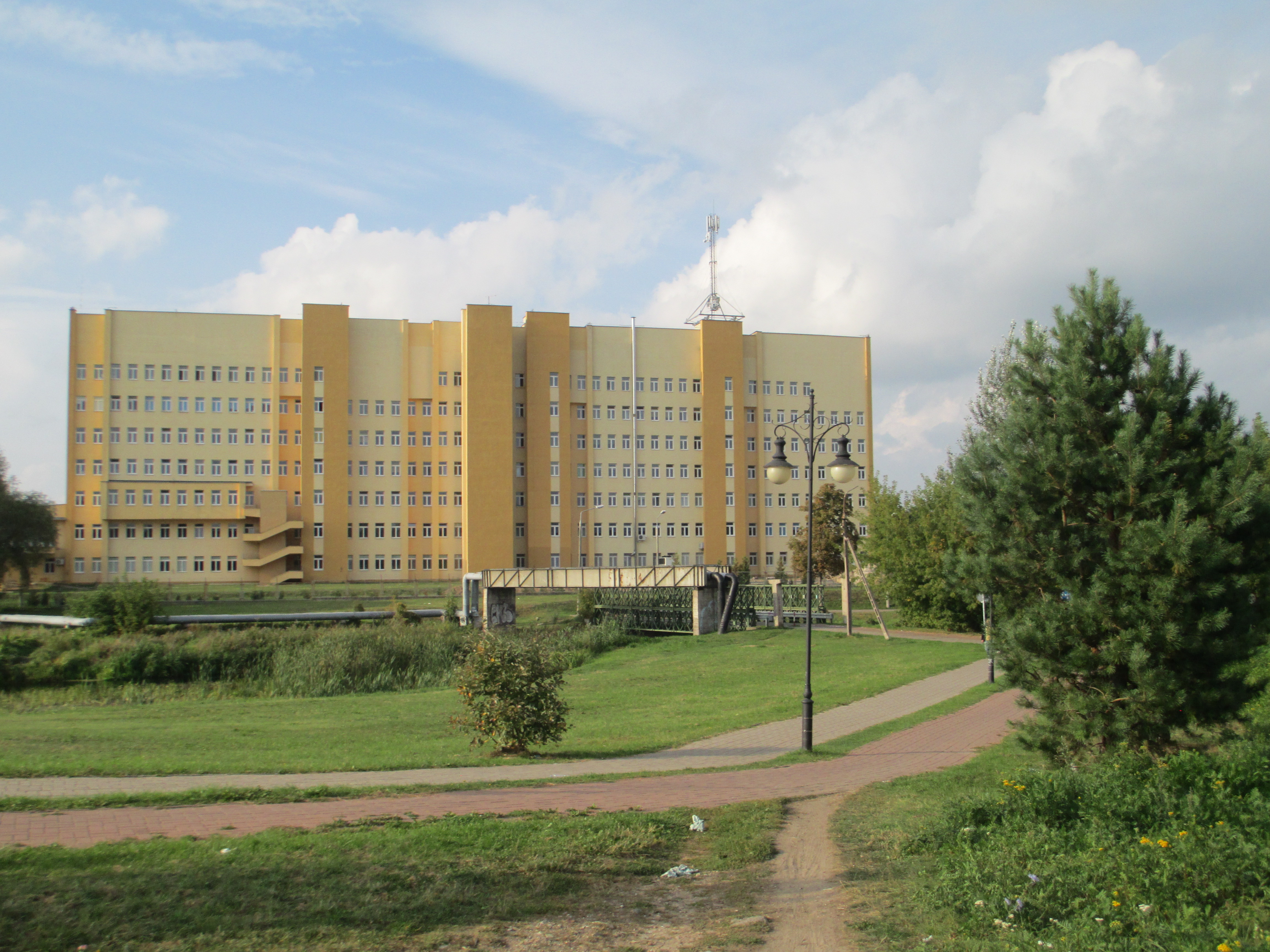 Elk - 108 Szpital Wojskowy